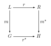 Single Pushout Diagram Algebraic Graph Rewriting.